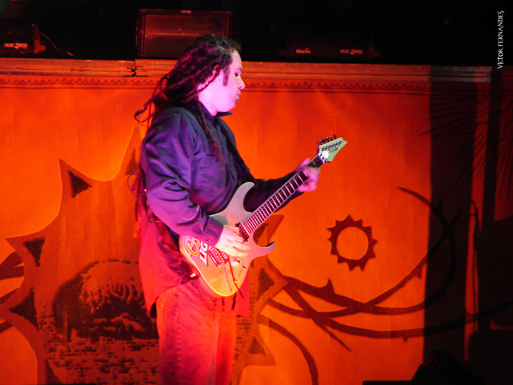 Evanescence at a concert. Photo showing Terry Balsamo.